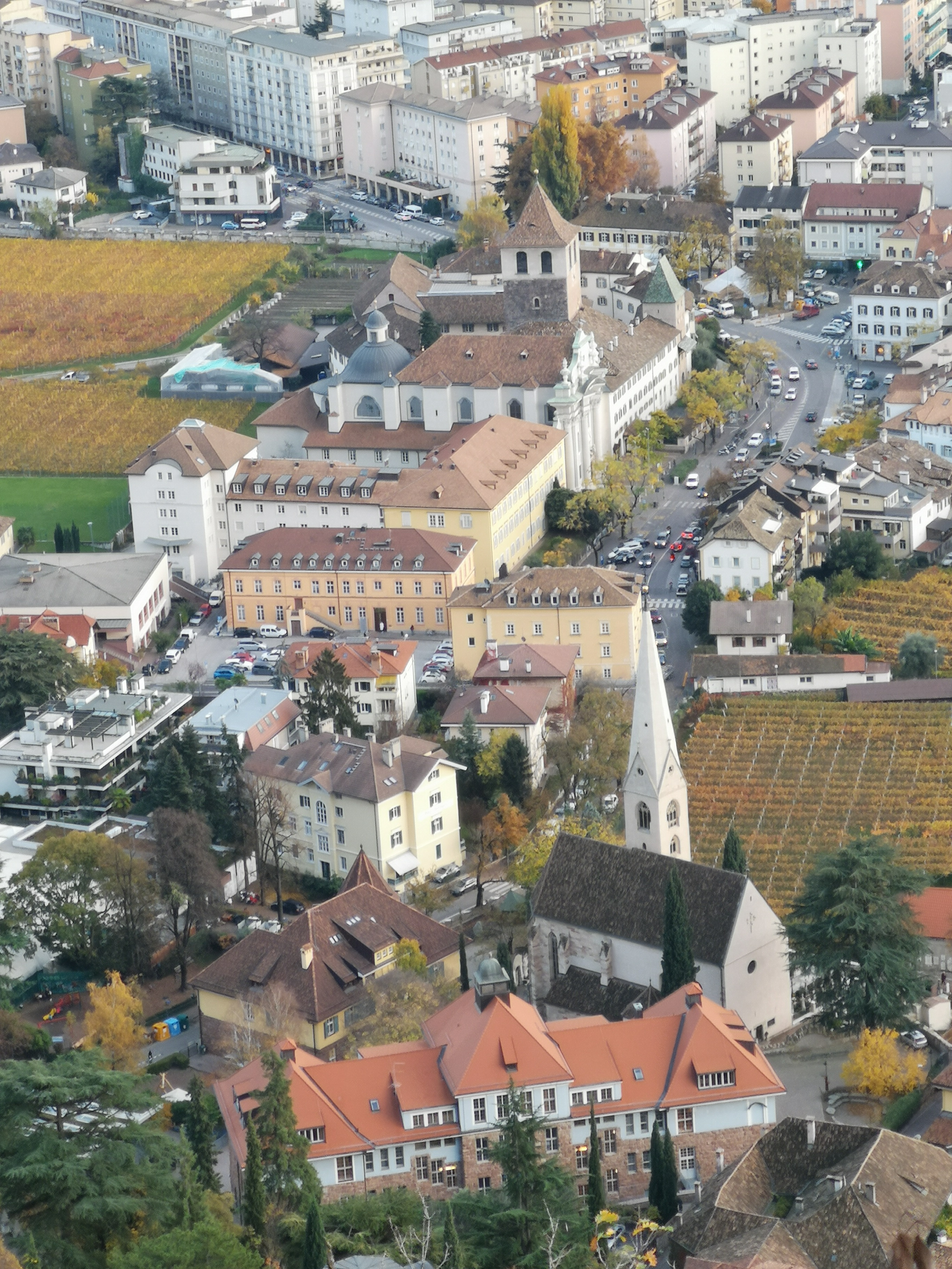 Bozen-Bolzano's Gries quarter seen from the Guntschnaberg